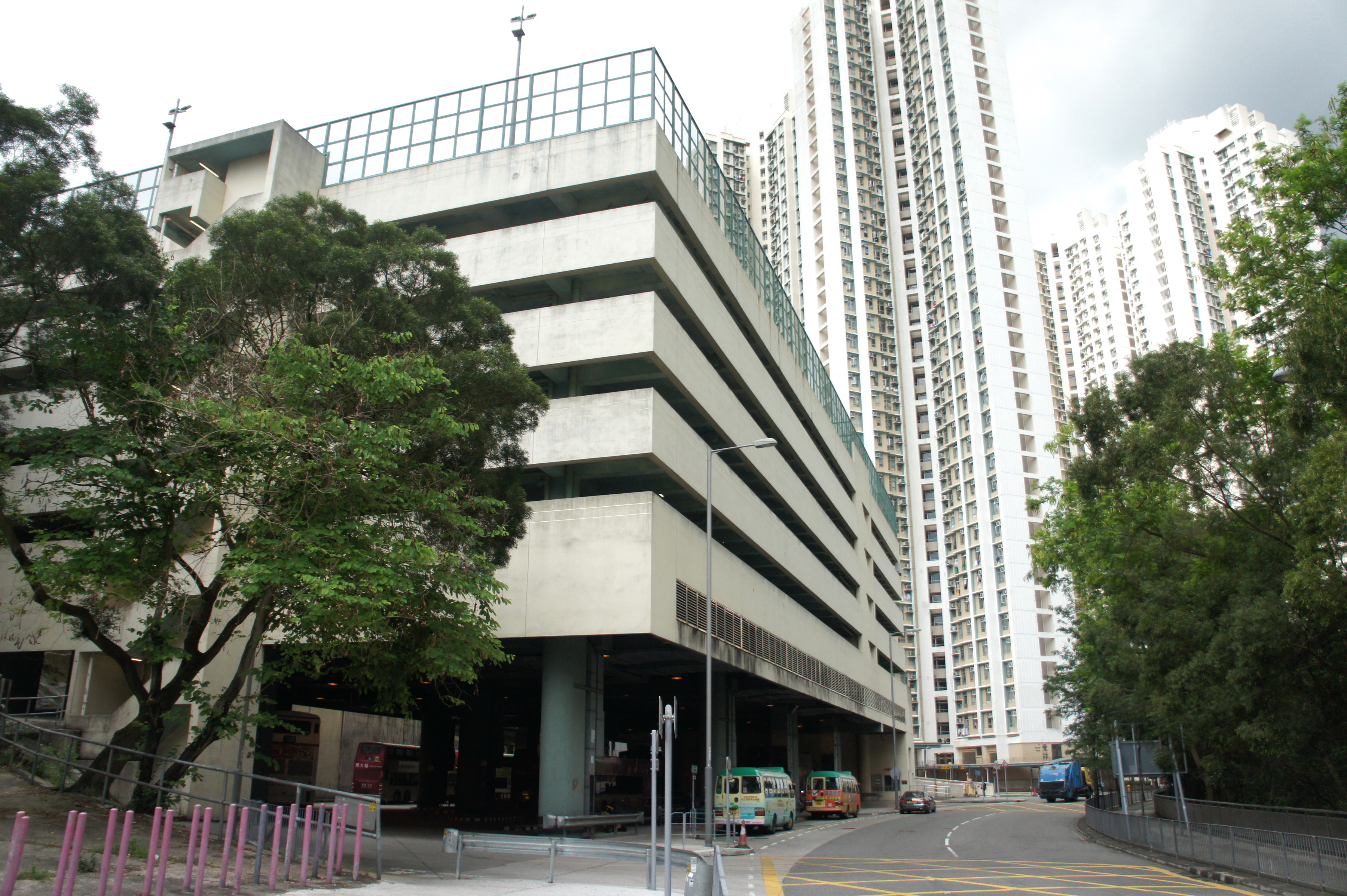 Tsz Wan Shan (North) Bus Terminus, Kowloon, Hong Kong.